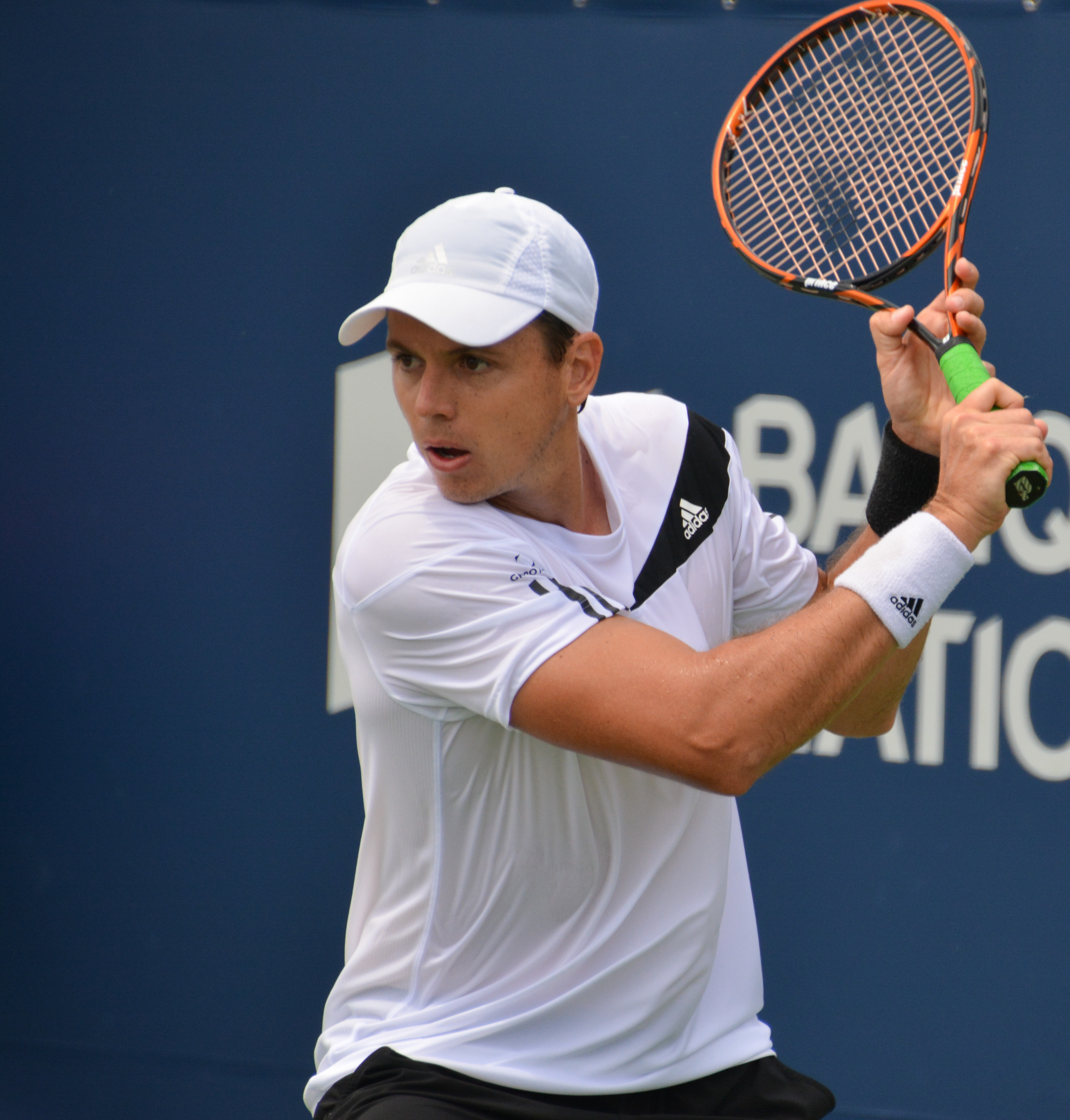 Coupe Rogers, Montreal 2015.